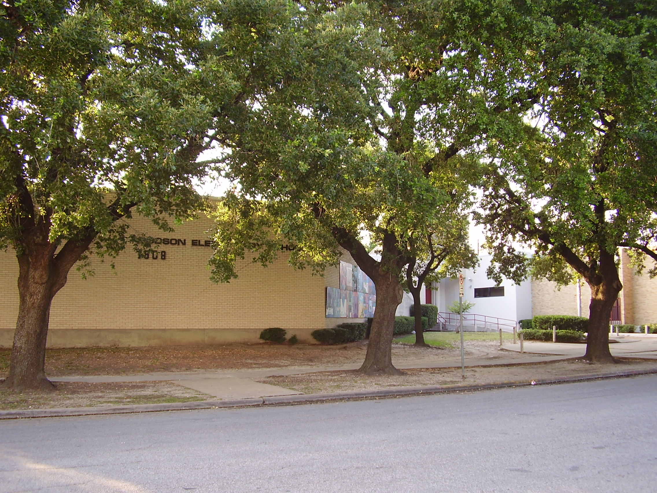 Julius Dodson Elementary School